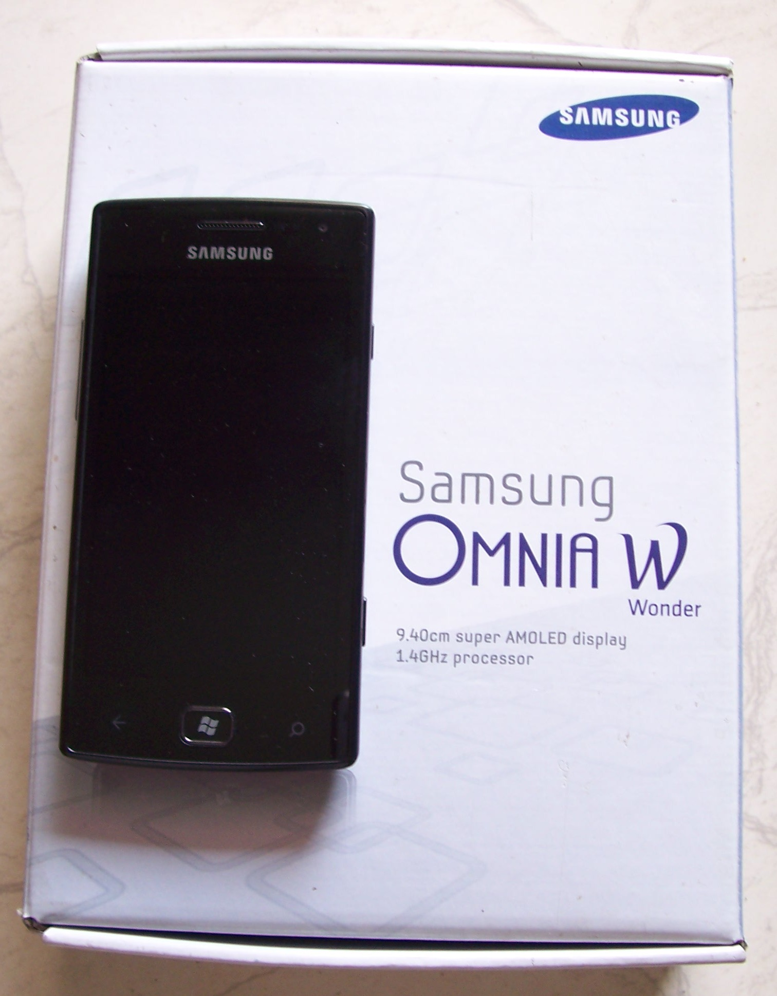 A Samsung made smart phone which belongs to Omnia series.